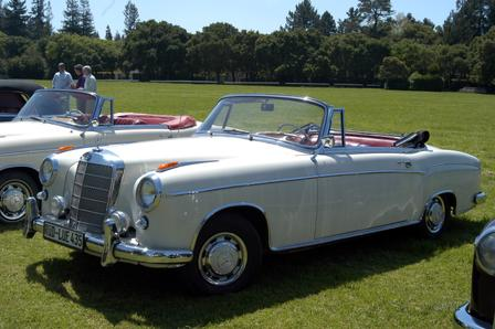 Scott Gordon, ponton cabriolet Mercedes LUE is a 1957 220S Cabriolet